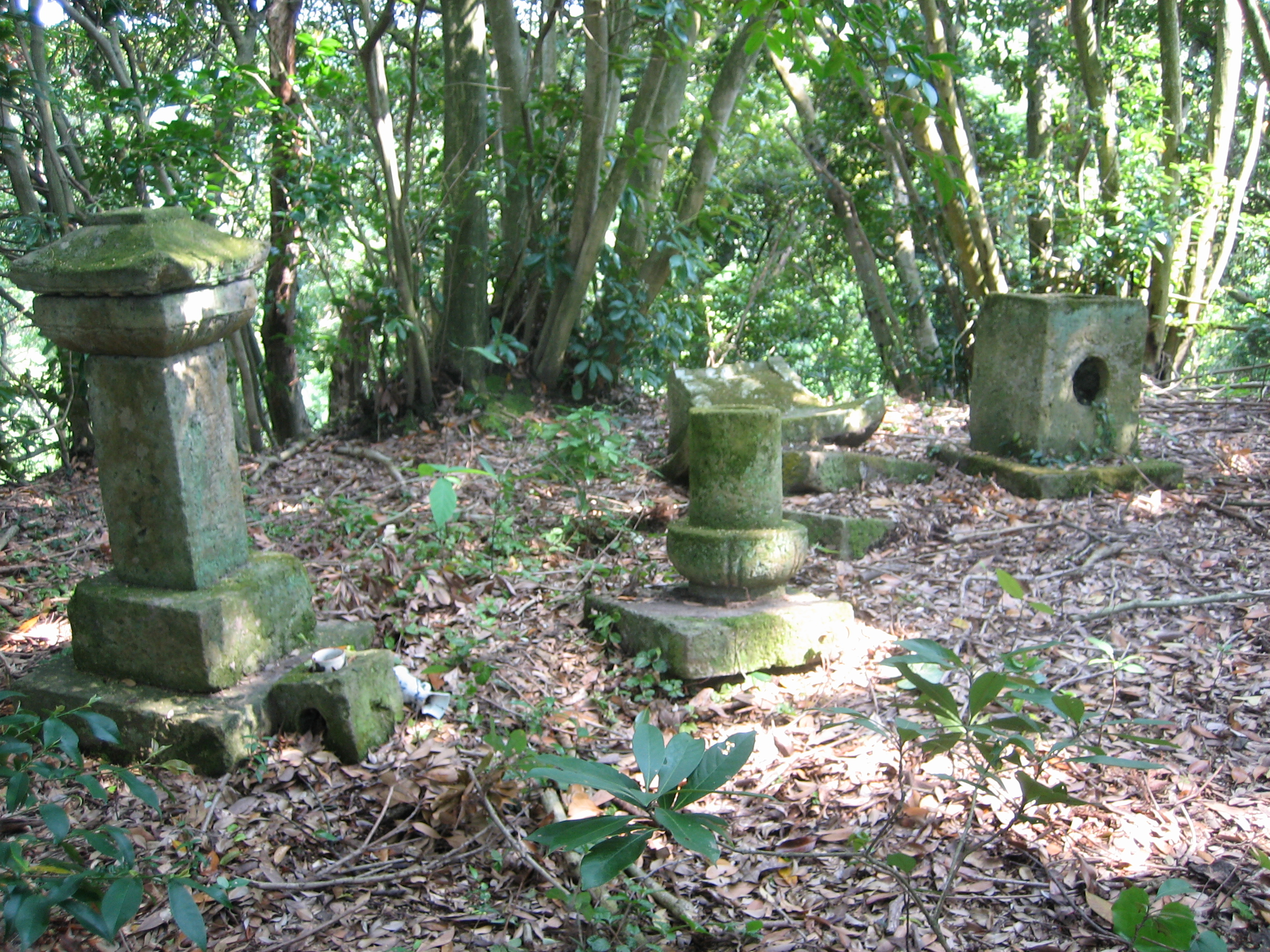 The ruin of Wakamiya jinja